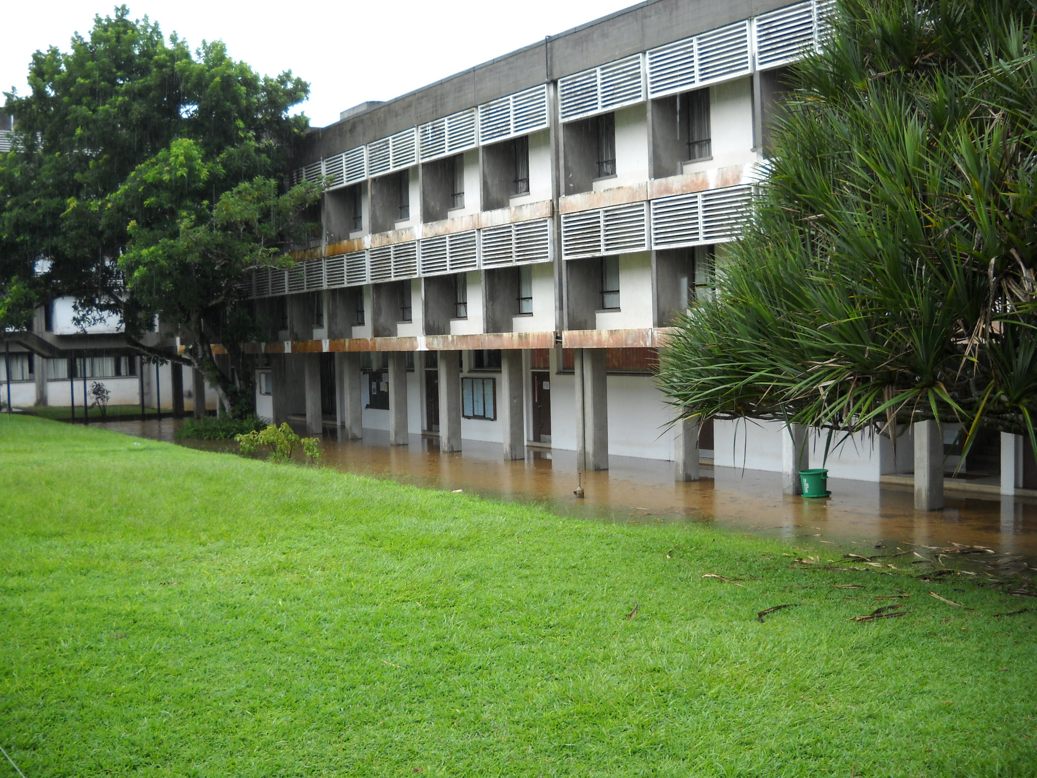 University of Mauritius, Faculty of Social Studies & Humanities - 20.03.2010